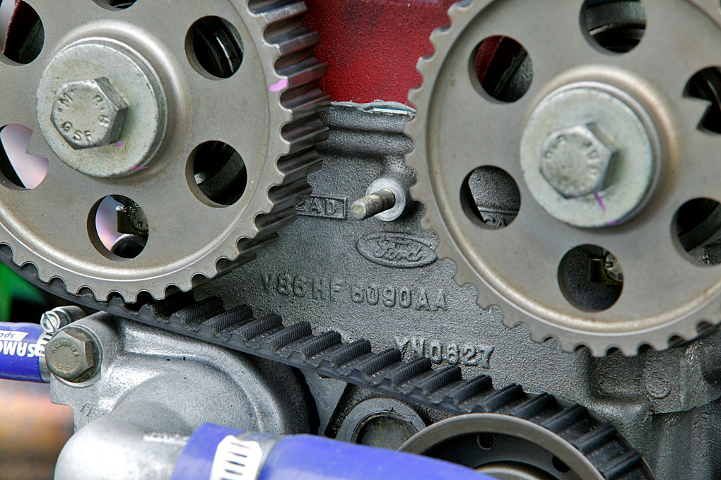 Ford Cosworth BDR engine